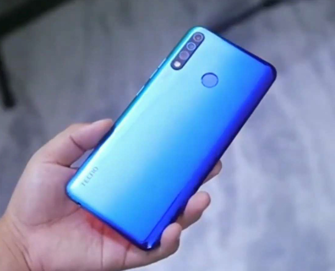 Smartphone Under ₹10,000 with Punch Hole Display Tecno Camon AIR 12